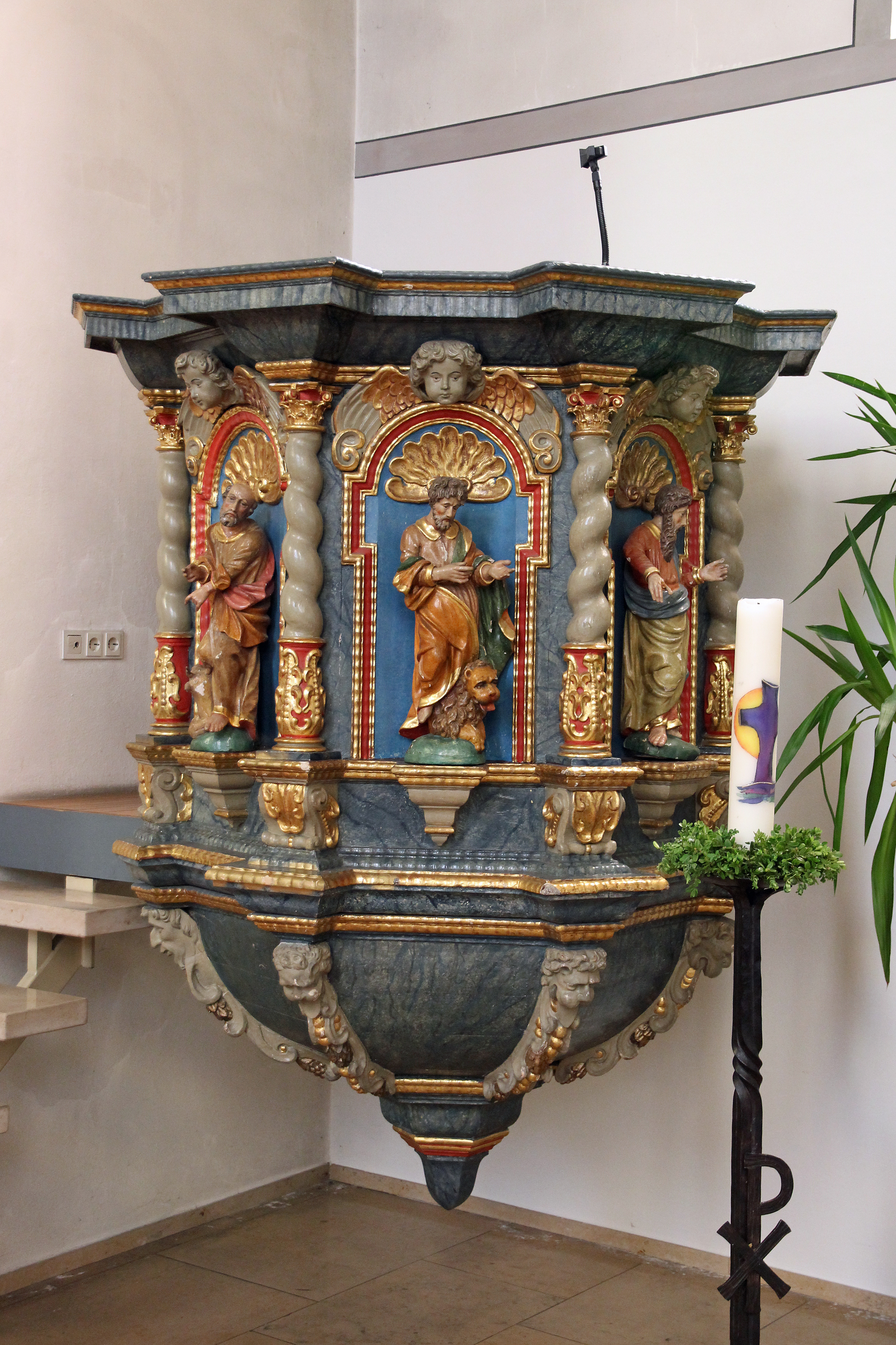 St. Pankratius church in Koblenz